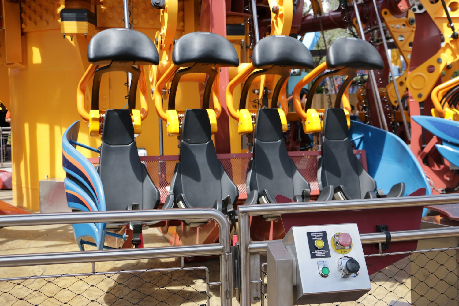 This is a photo of one of the eight sets of seats used on the Falcon's Fury attraction, currently operating at the Busch Gardens Tampa amusement park.